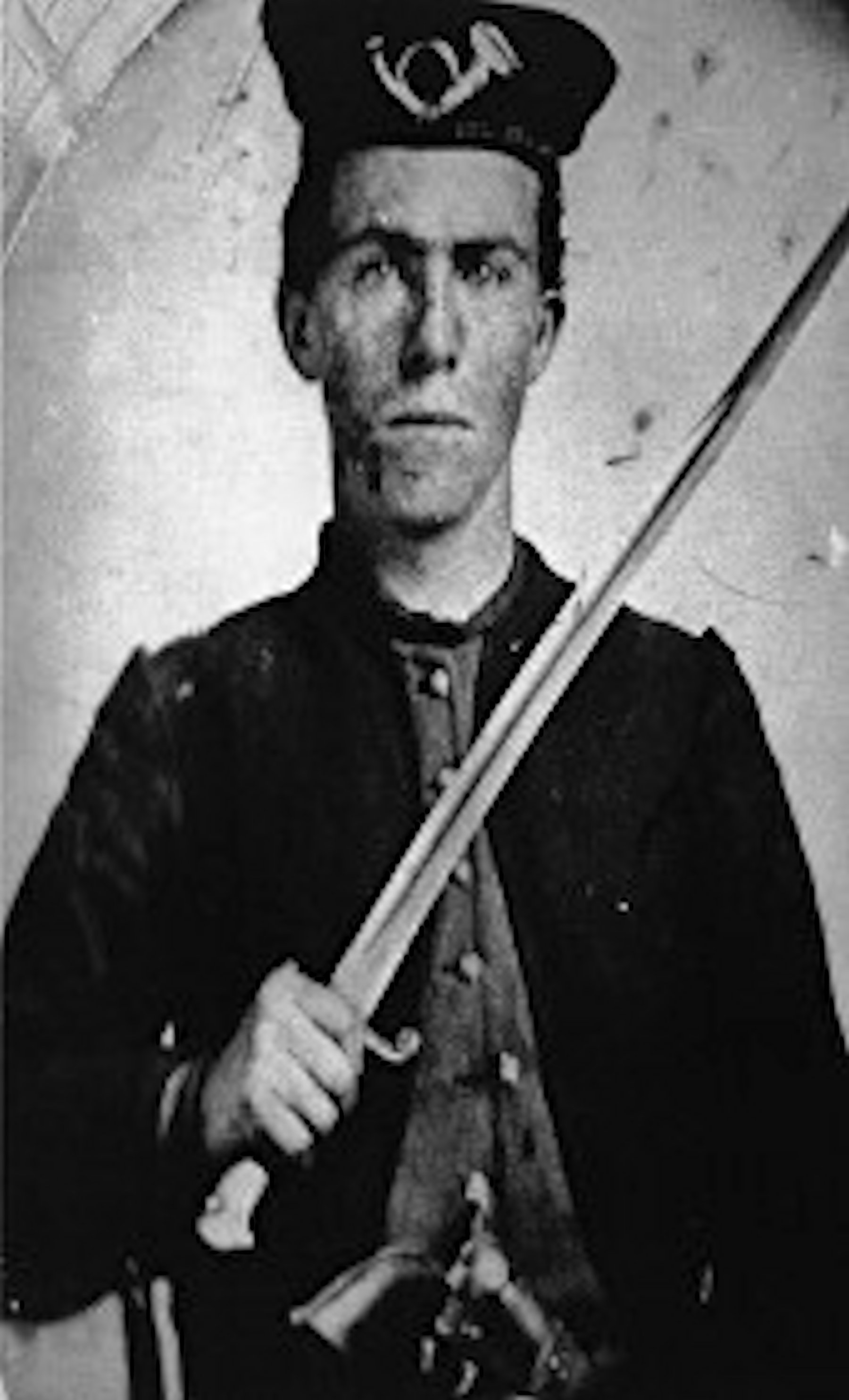 Medal of Honor winner Peter J Ryan